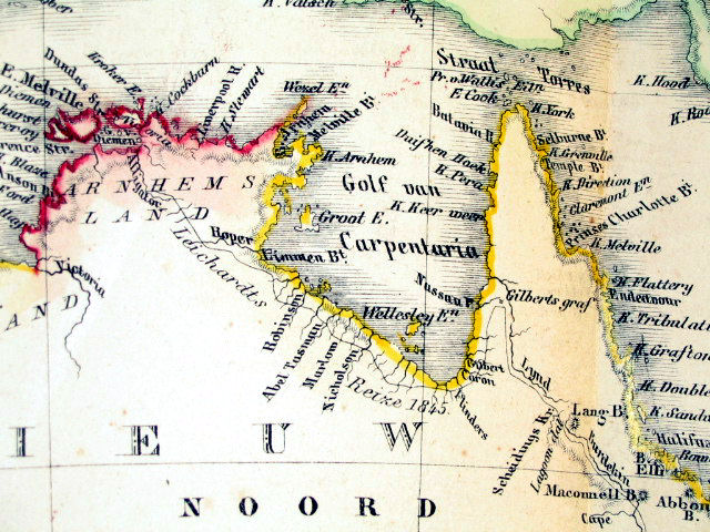 Portion of a map entitled "Australie" by Otto Petri, Rotterdam, Holland 1859, showing the Gulf of Carpentaria